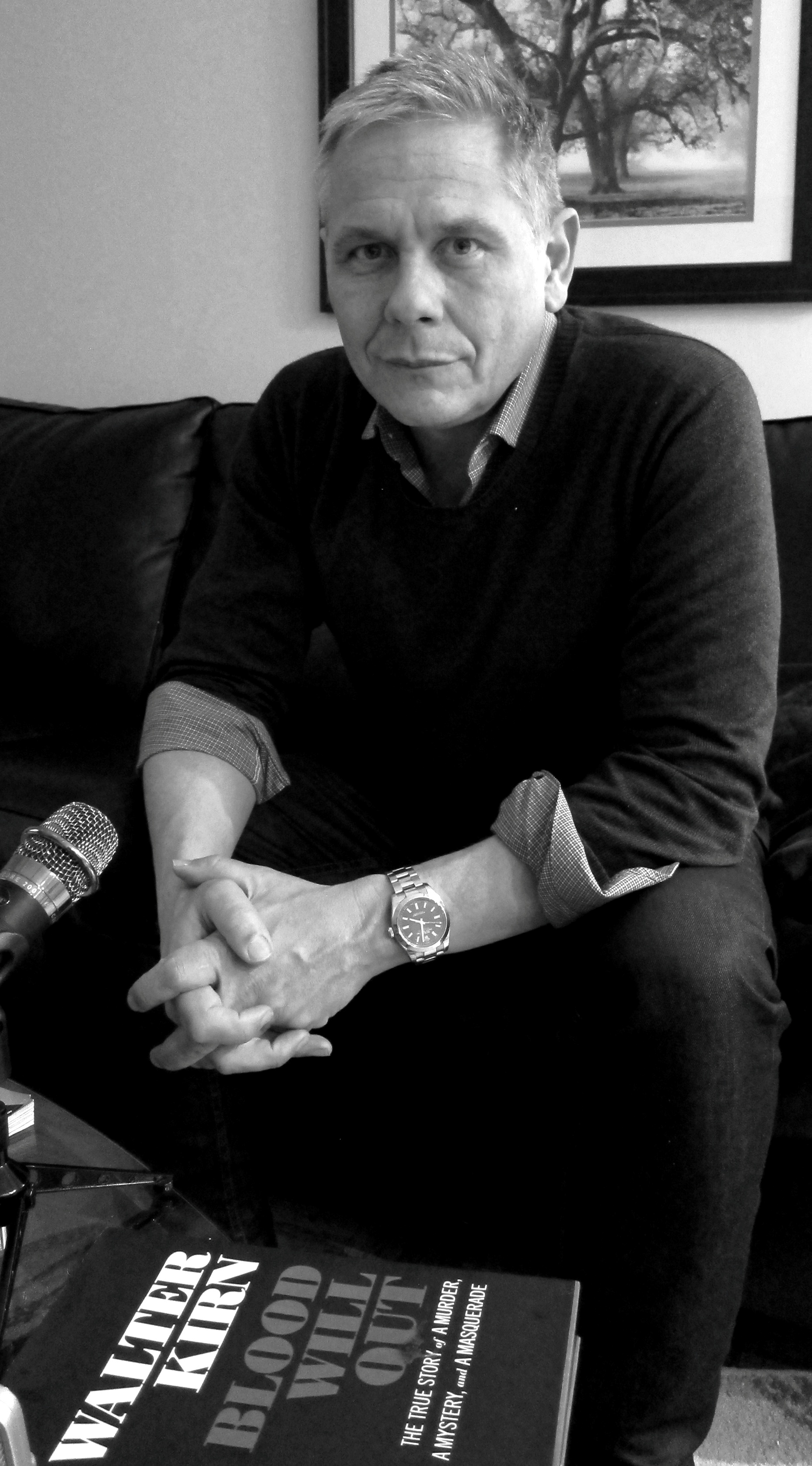 Walter Kirn joins the show to talk about his new book, Blood Will Out (Liveright Press), chronicling Kirn's friendship with the con artist/sociopath known as Clark Rockefeller.